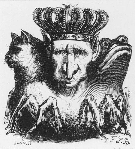 Bael, Medium woodblock, from J.A.S. Collin de Plancy. Dictionnaire Infernal. Paris: E. Plon, 1863. Page 71. Note: Demon described in le Grand Grimoire as being high among the infernal powers....he teaches those that invoke him to disappear at will.